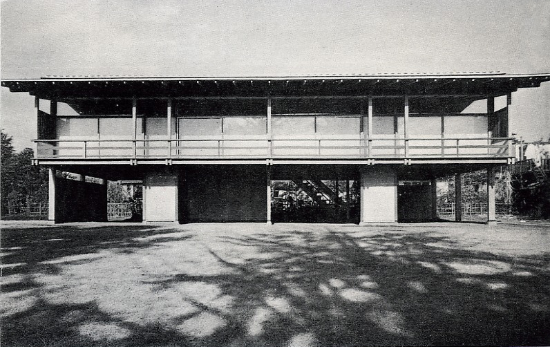 A House — by architect Kenzo Tange. Modern movement house built in 1953 in Japan.